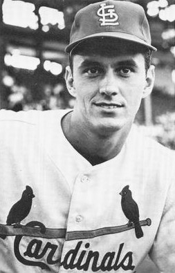 Professional baseball player Dal Maxvill